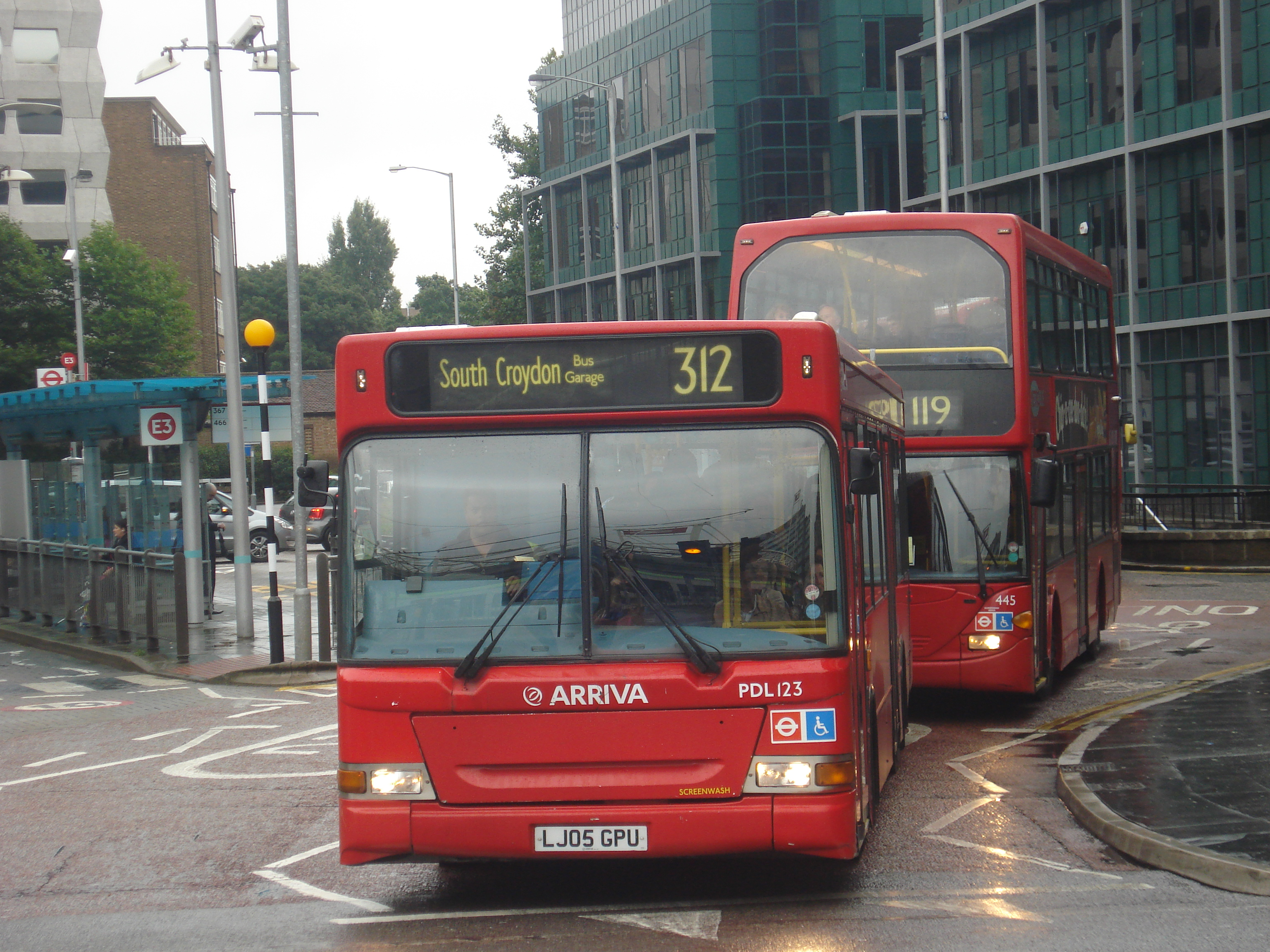 Arriva PDL123, Route 312, East Croydon